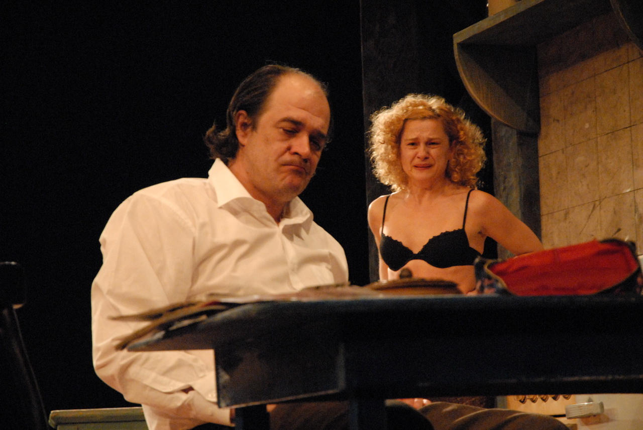 "The Beauty Queen of Leenane" by Martin McDonagh; directed by Boris Isaković, Drama of the SNT; Novi Sad, 2008/09; Boris Isaković, Jasna Đuričić Srpski (latinica): "Lepotica Linejina", Martina Mekdone u režiji Borisa Isakovića; Drama SNP-a, Novi Sad, 2008-2009; Boris Isaković, Jasna Đuričić Српски (ћирилица): "Лепотица Линејина", Мартина Мекдоне у режији Бориса Исаковића; Драма СНП-а, Нови Сад, 2008-2009; Борис Исаковић, Јасна Ђуричић